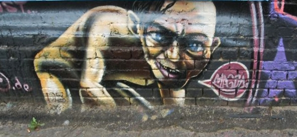 A graffiti art depiction of Gollum on the East Side Gallery of the Berlin Wall.